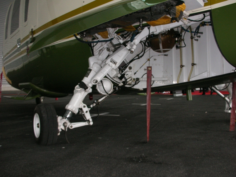 Retractable gear of an Sikorsky S-76C+ Helicopter